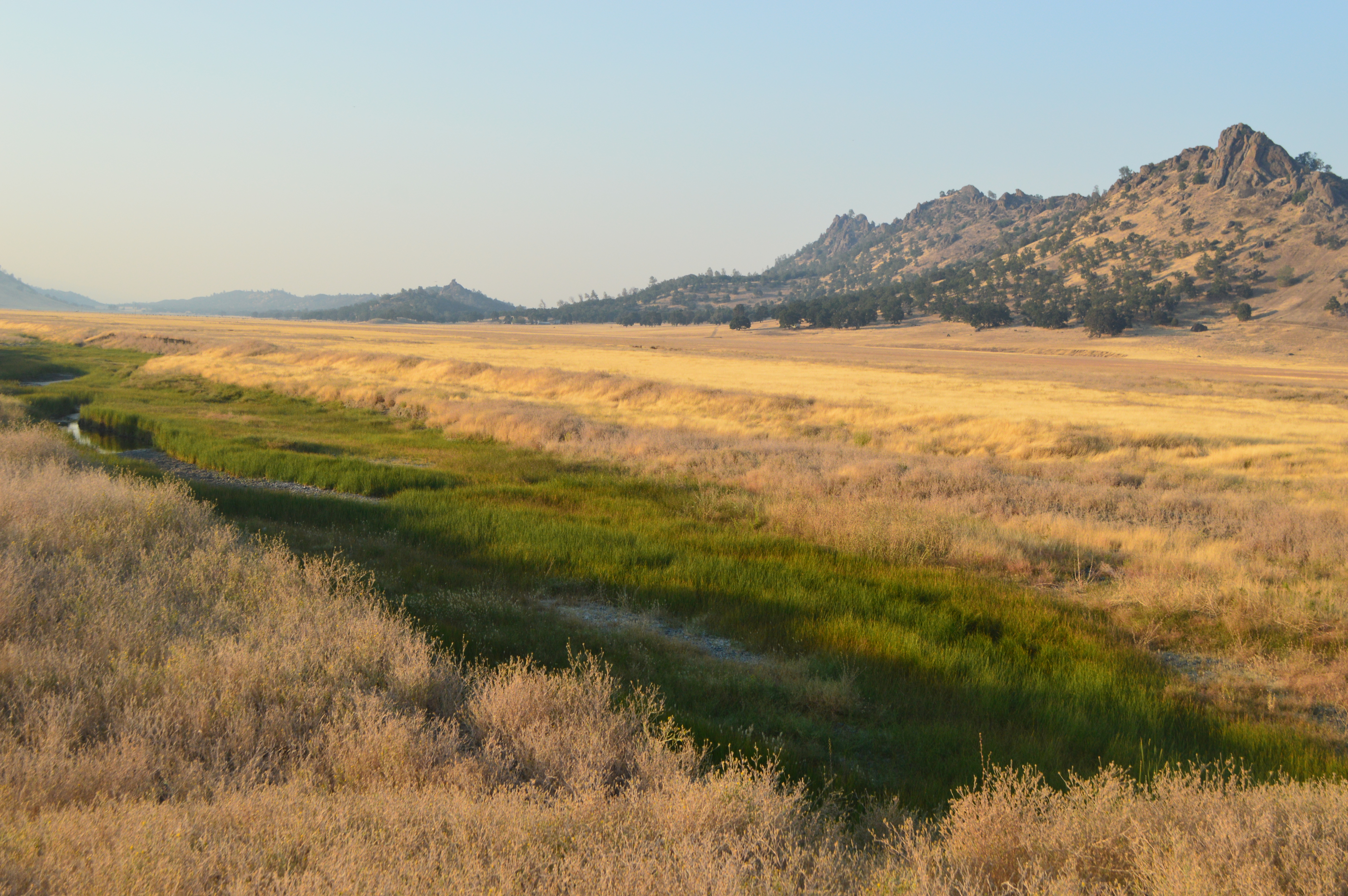 Bear Valley during the parched summer months with Bear Creek in center